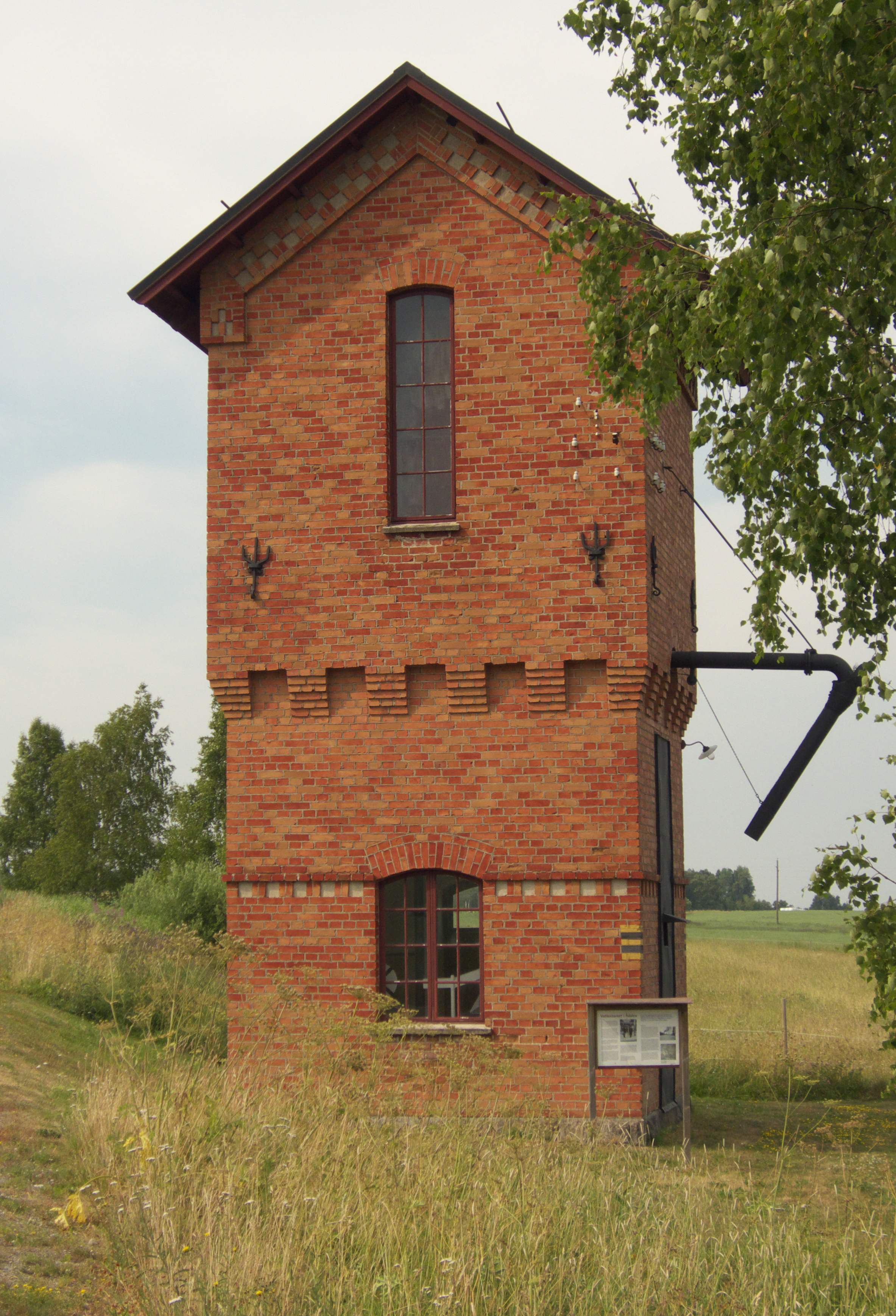 Preserved water tower for steam locomotives at Ådalen on the former EHRJ railway line between Enköping and Heby.